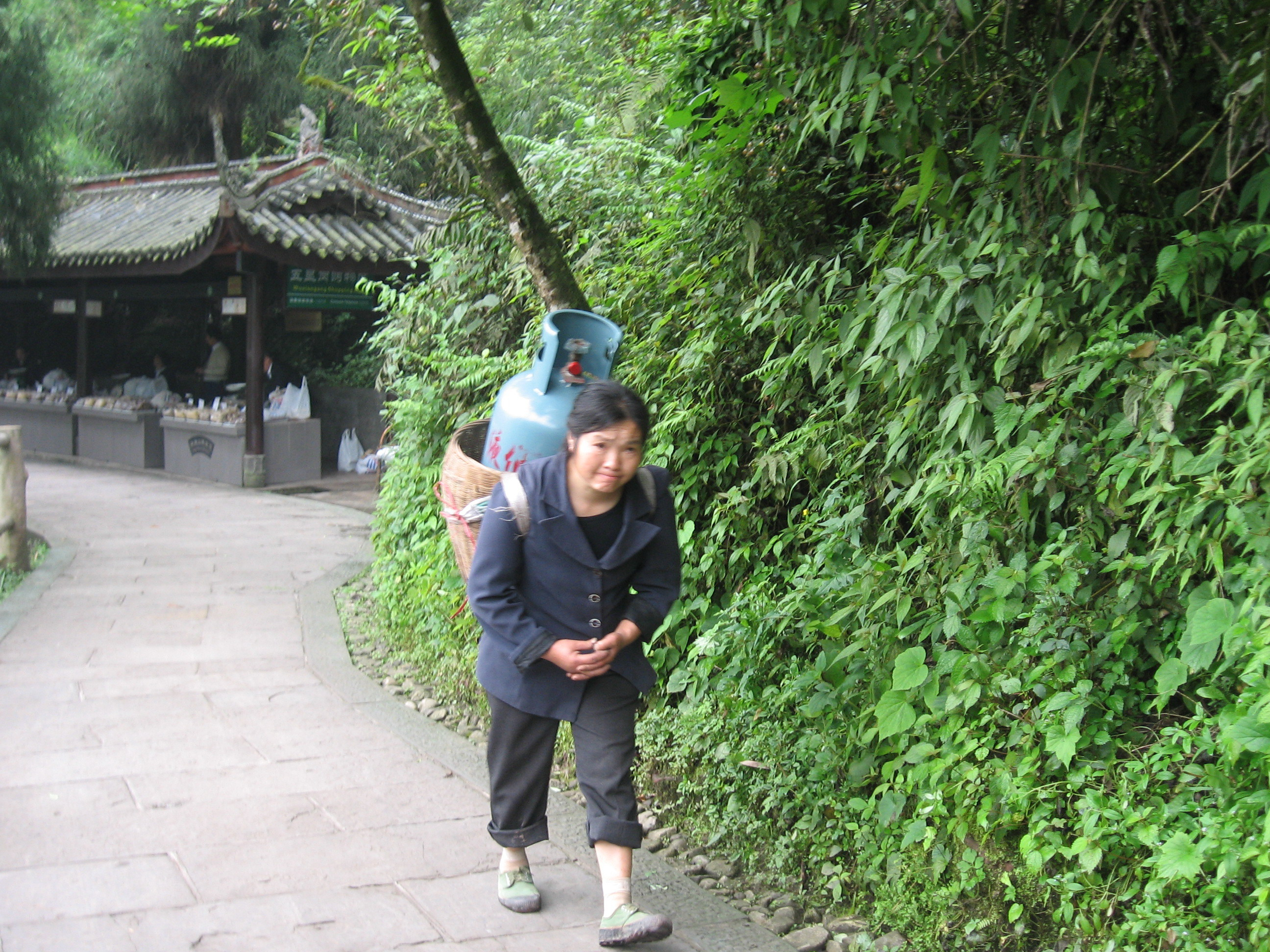 Chinese woman carrying